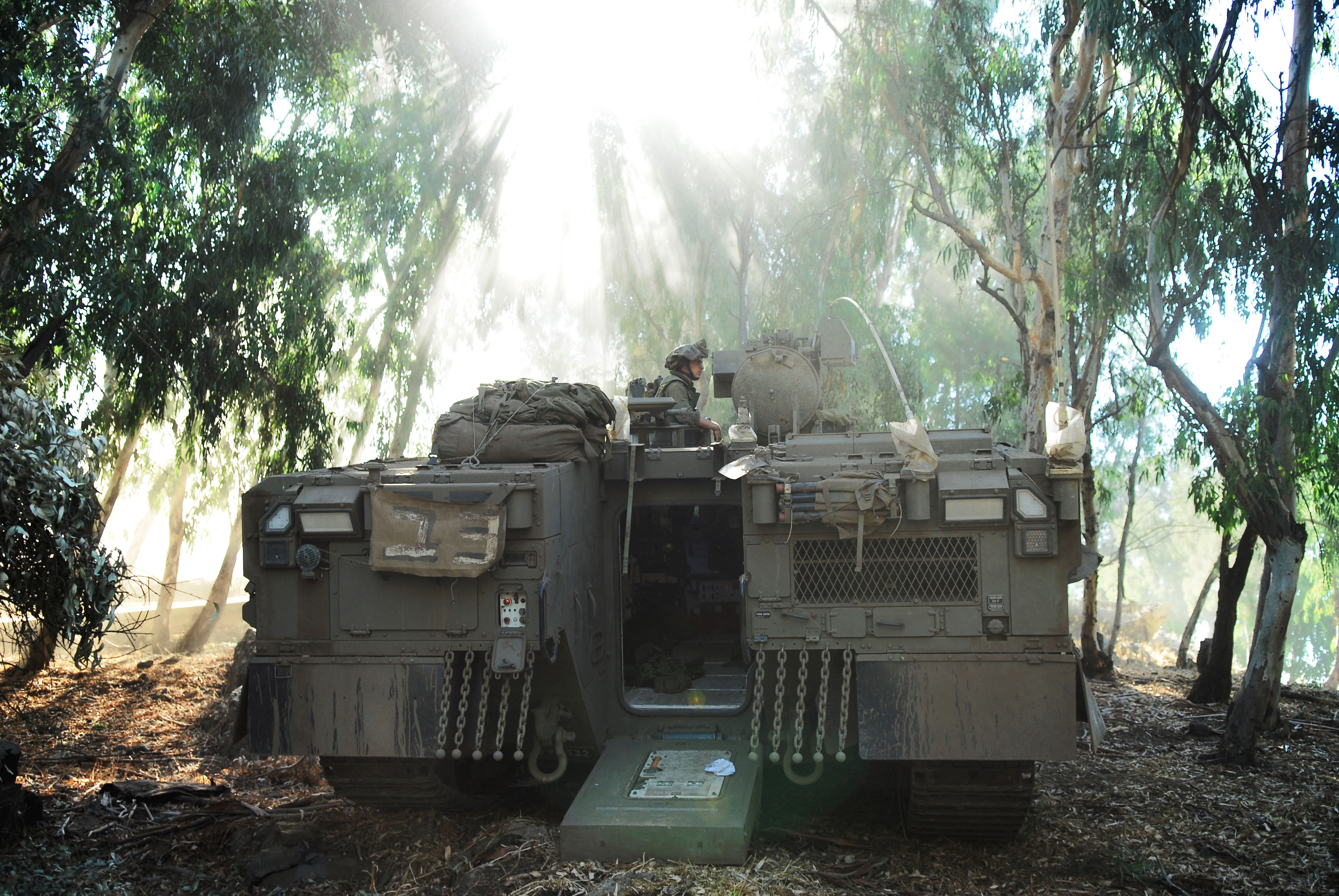 August 21, 2012 The 13th Battalion of the Golani Brigade during a drill held in the Golan Heights, northern Israel. The NAMER ("Tiger"), a new vehicle combining the artillery abilities of the Merkava tank and the APC's shielding capacities, was fully integrated in this drill for the first time, improving the battle tactics used by the IDF in the field. Photo by Pvt. Tal Manor The Israel Defense Forces Facebook • blog • Twitter